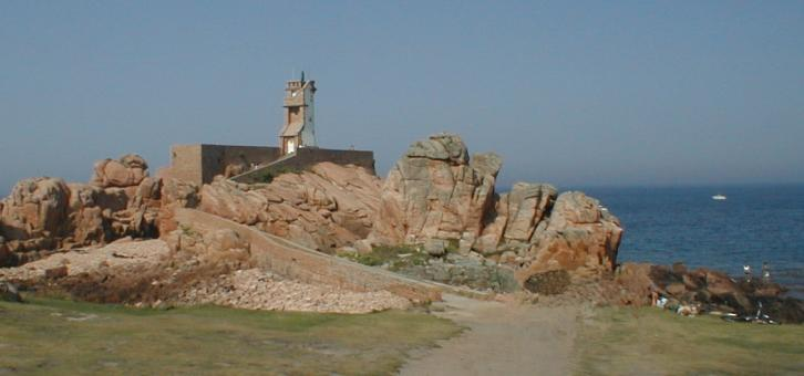 Paon lighthouse on Bréhat, off the coast of France.